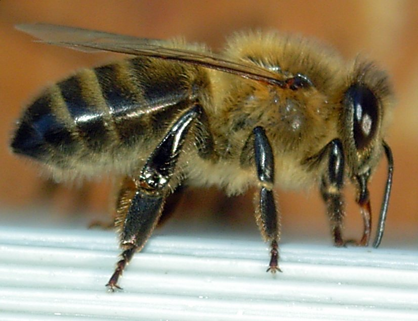 A black bee (Apis mellifera mellifera) in the feeding box, view from side.